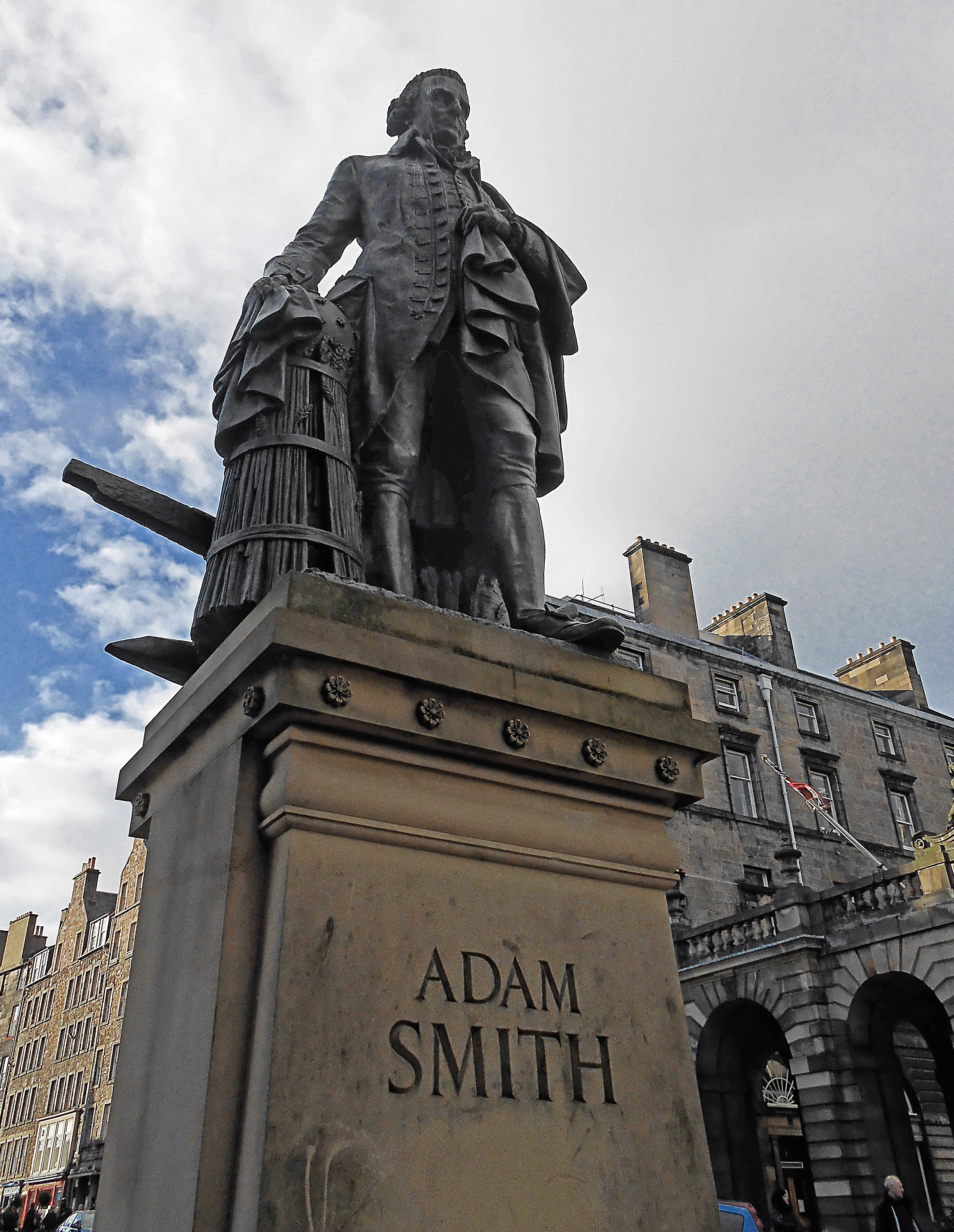 Statue of the Scottish economist on the Royal Mile, Edinburgh. Smith wrote 'The Wealth of Nations' back in the 18th century, but the bronze statue, by Alexander Stoddart, has only been here since 2008.